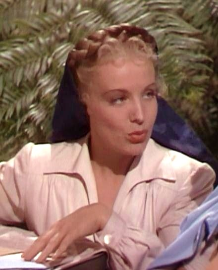 Swedish-born American actress Signe Hasso in The Story of Dr. Wassell - trailer (cropped screenshot)